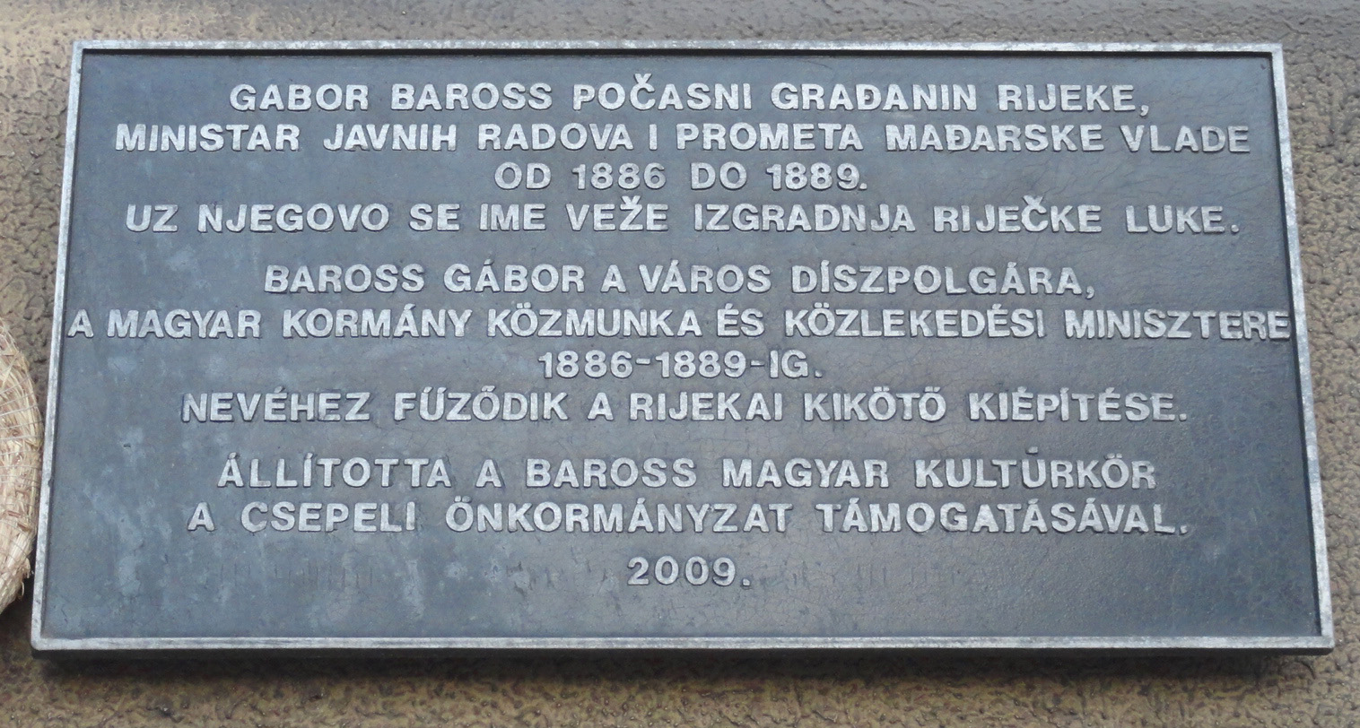 Memorial plaque for Gábor Baross on the Transadria building in Rijeka